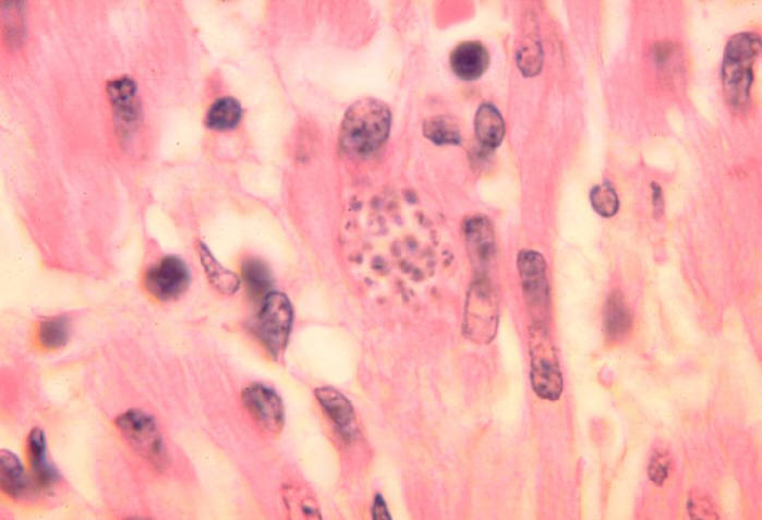 Trypanosoma cruzi in monkey heart. Histopathology.